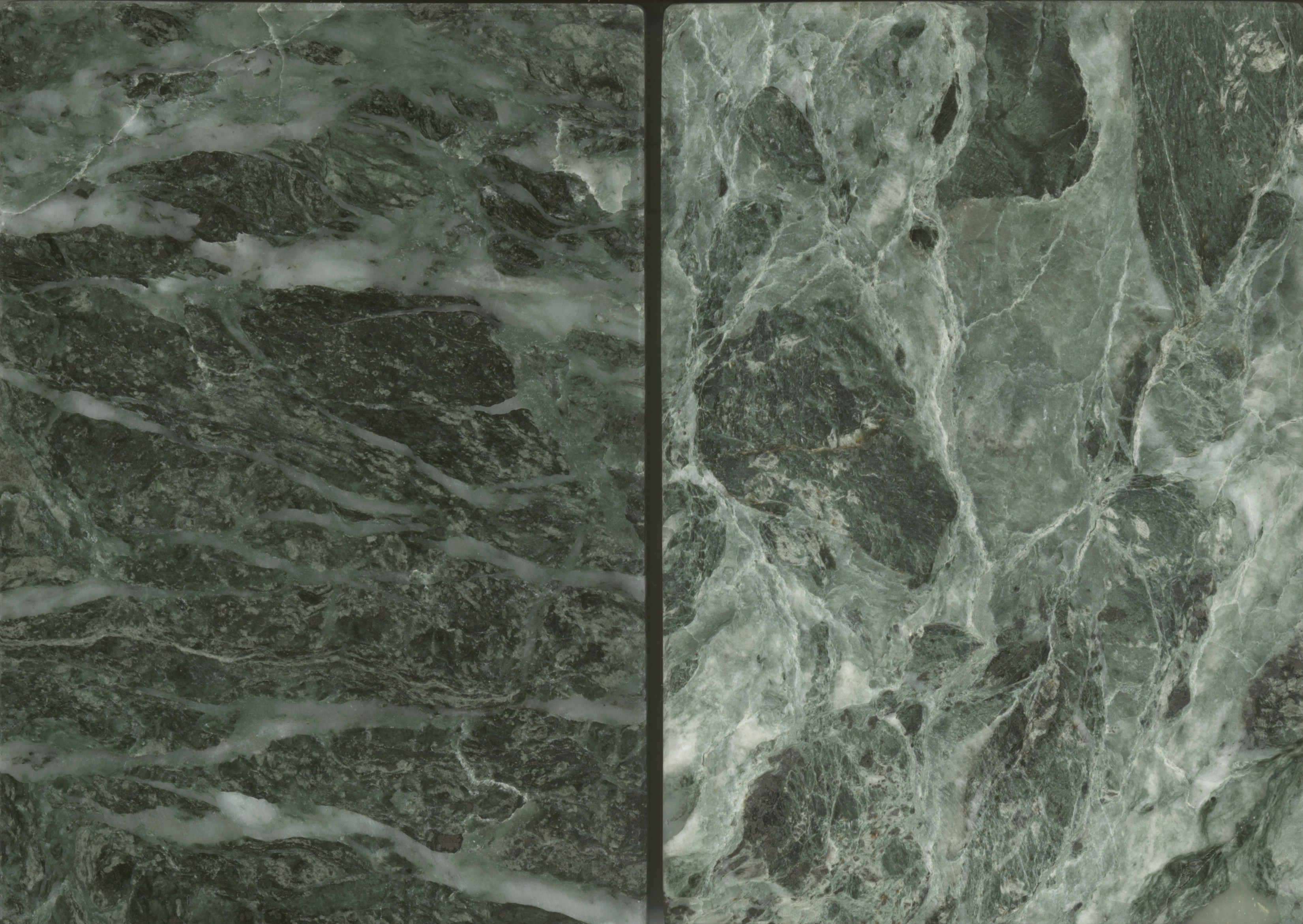 Ophicalcite, different kinds (Aosta Valley, Italy)